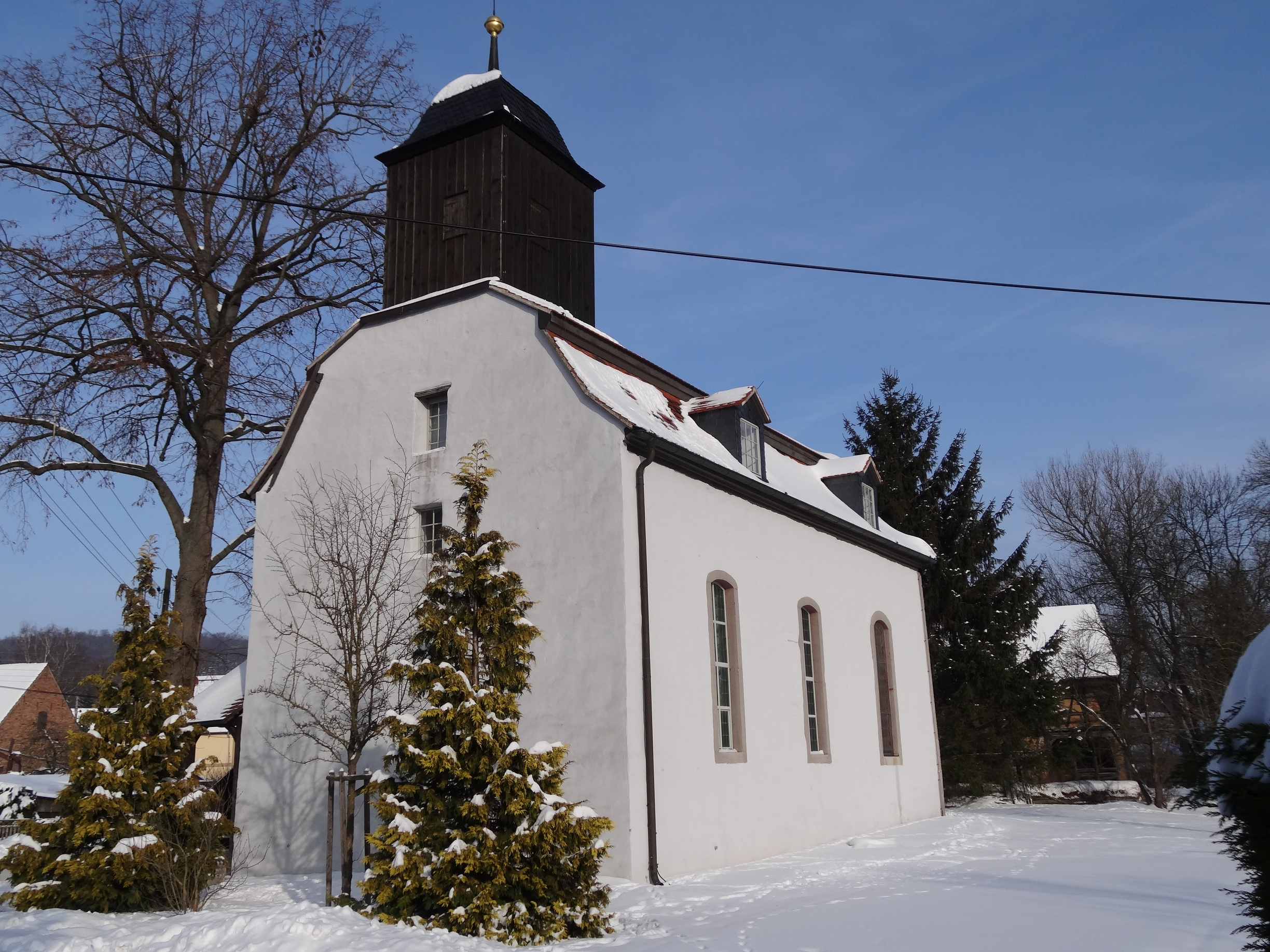 Church in Hetschburg, Thuringia, Germany